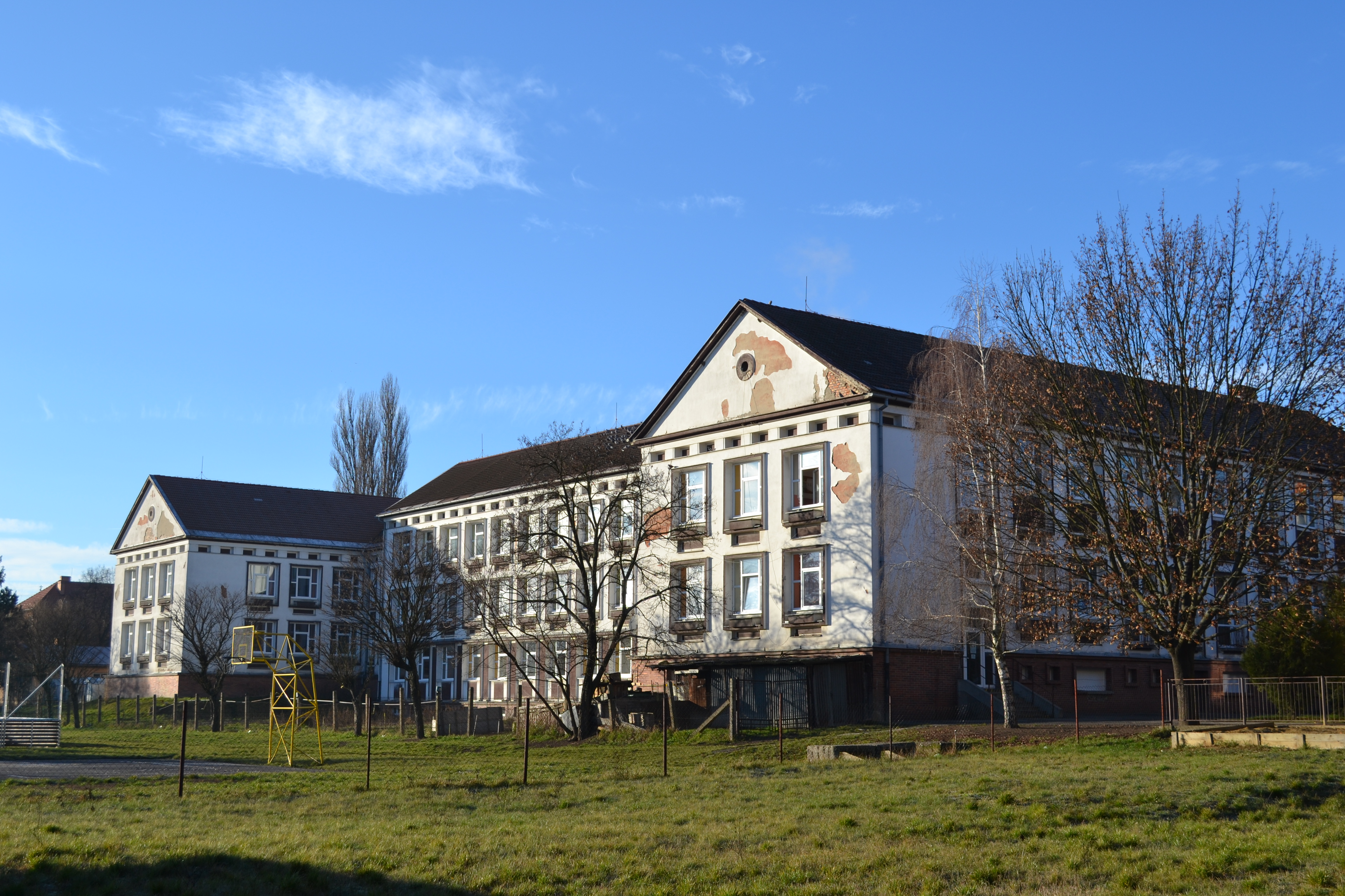 Elementary School, Školská 1, Fiľakovo